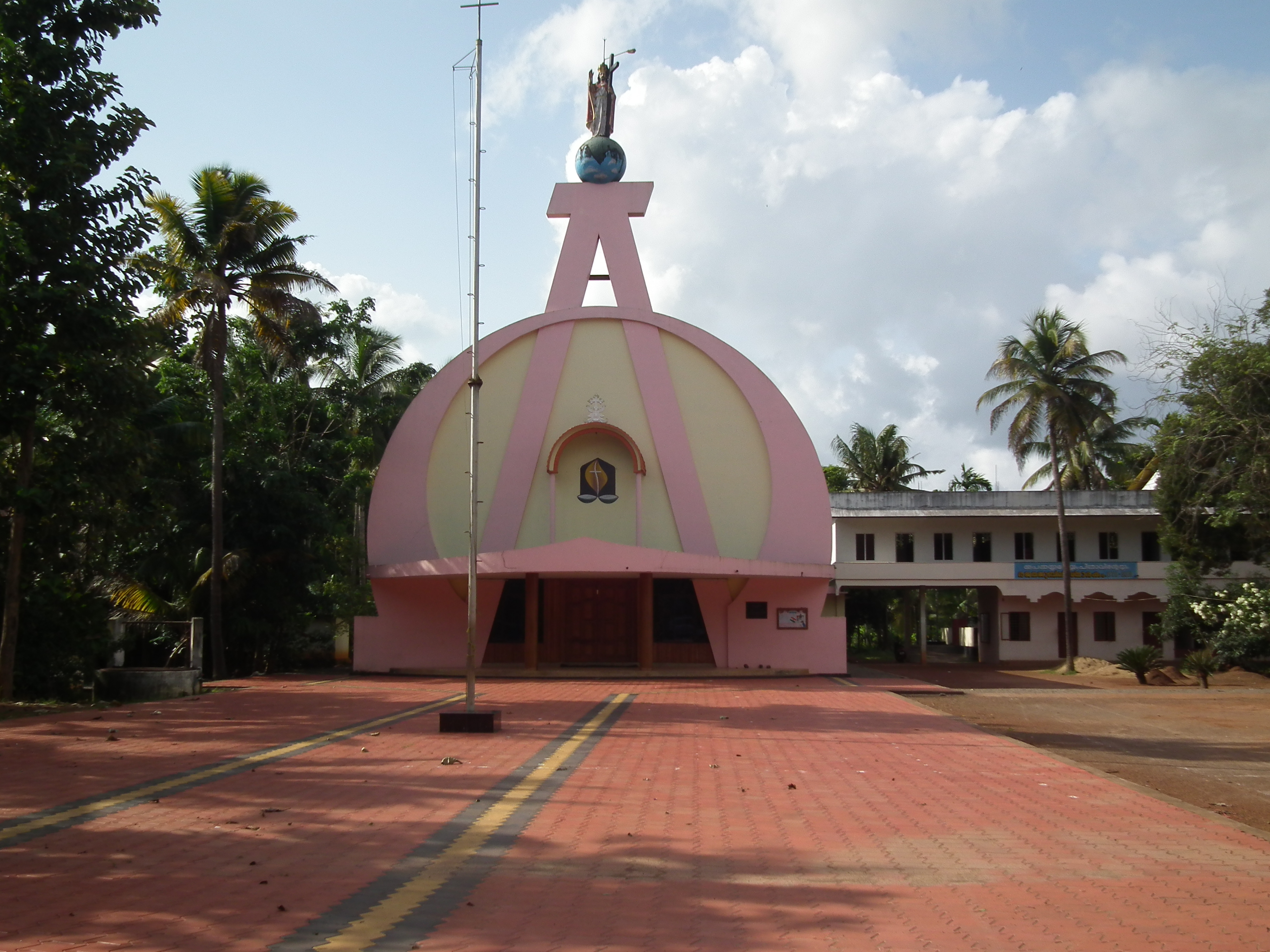 Photo from Annamanda Church in Annamanada, Thrissur Dist.